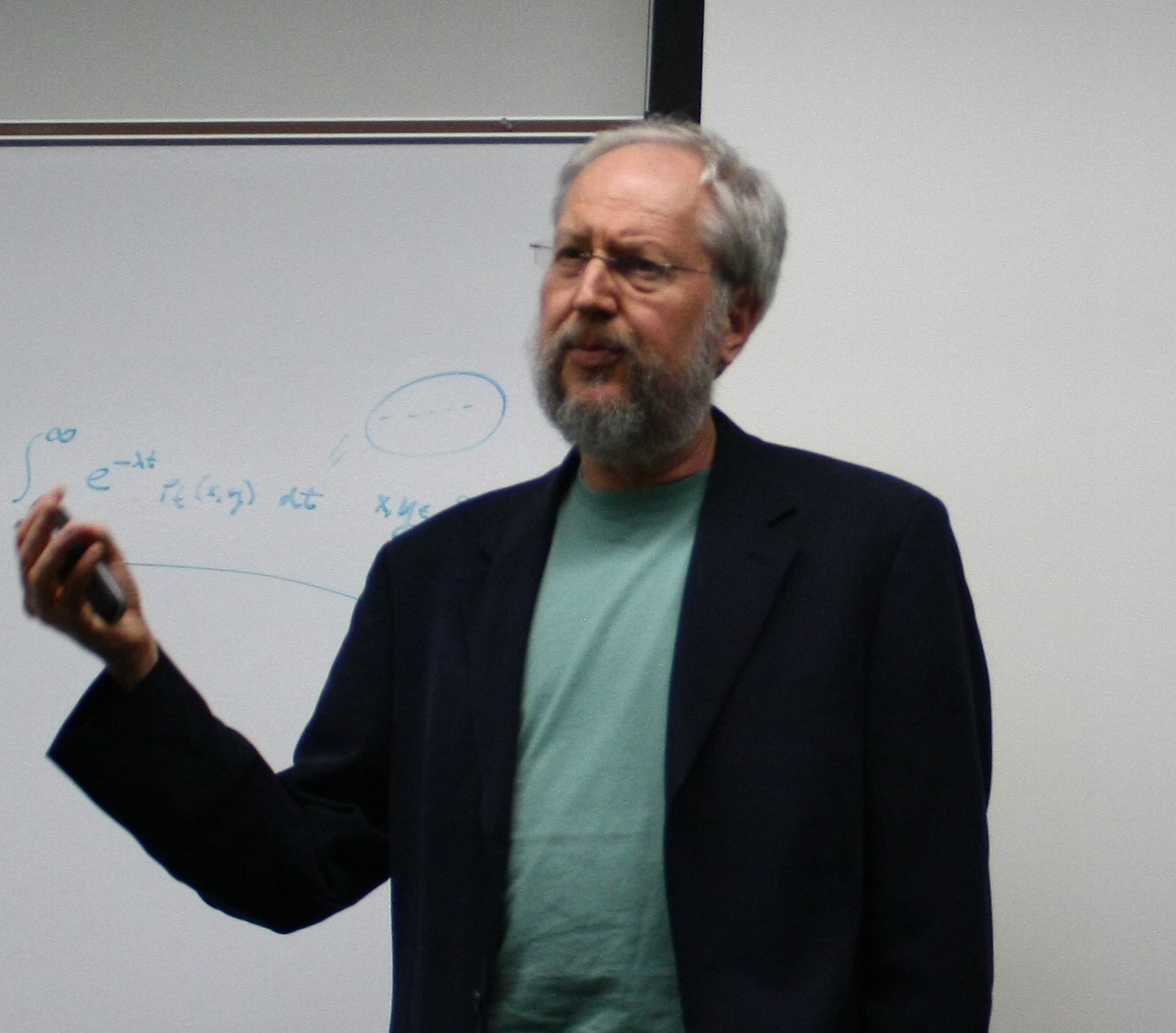 Douglas Crockford speaking as a part of Yahoo! University Hack Day at Georgia Tech on March 10, 2010.